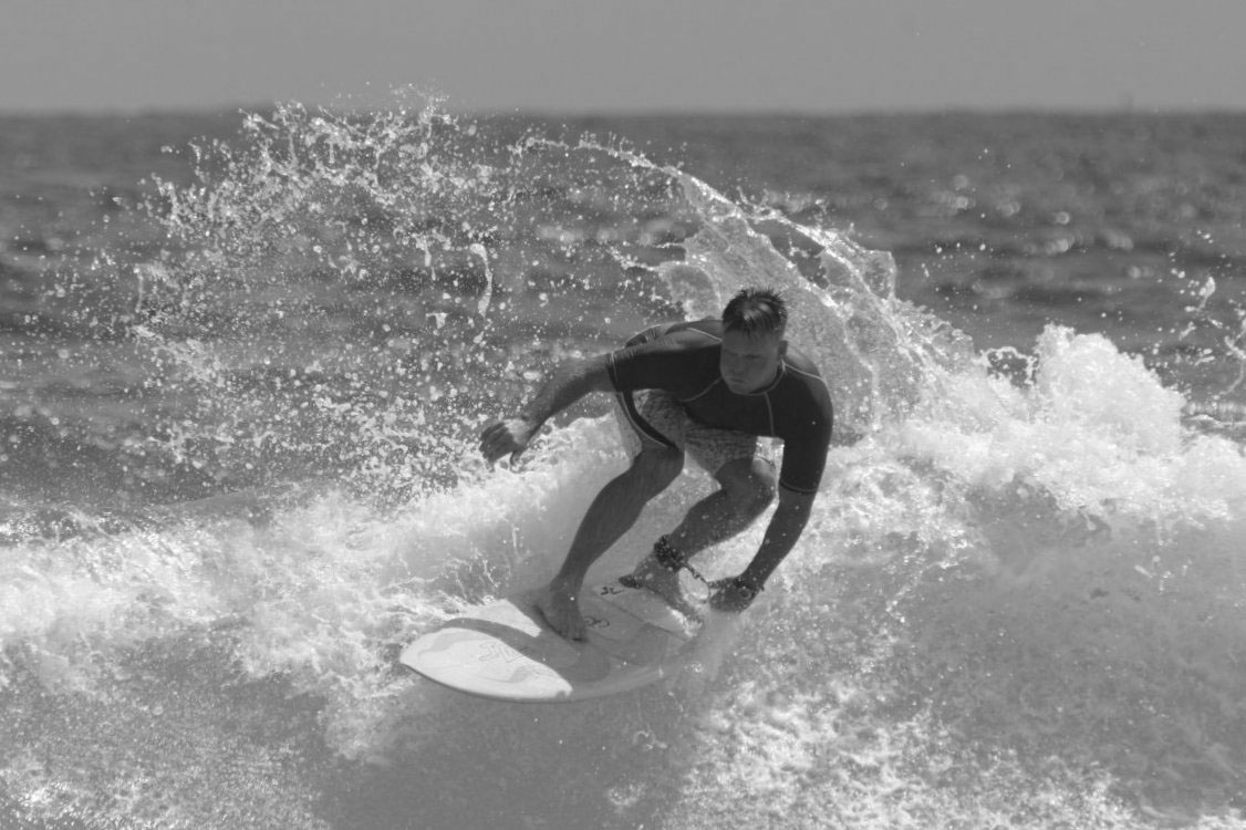 This image is a grayscale version of Image:Surfing in Hawaii.jpg—its lightness has been preserved but its color stripped—for comparative use in the Colorfulness article. Original description: Surfing in Hawaii. A photograph of Kris Burmeister of the U.S. Marine Corps catching a wave during the first surfing contest of the year, the Pyramid Rock Surf Showdown. Photograph taken aboard the MCB Hawaii off the Marine Corps Base Hawaii in Kaneohe Bay.